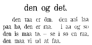 Danish school book from 1890. At that time ø and ö existed in parallel in the Danish language